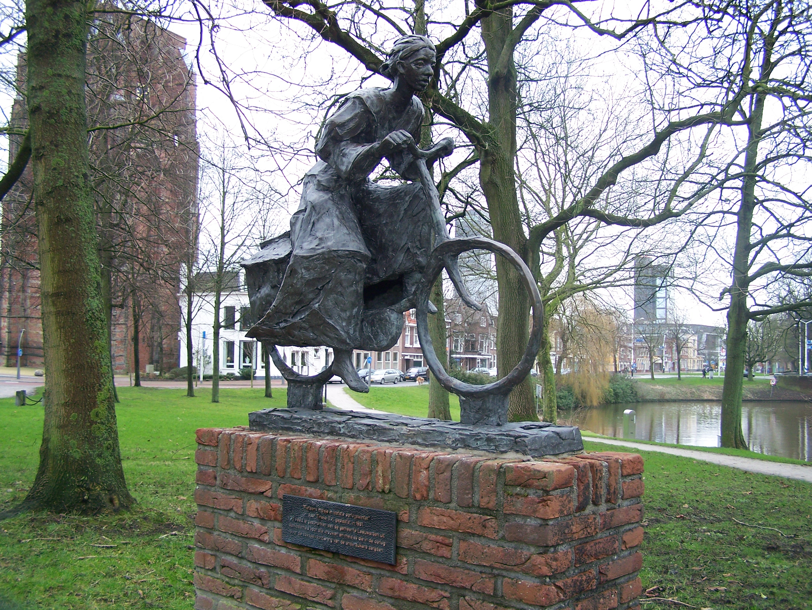 War monument De Koerierster (The Courier), by Tineke Bot in 1984 in Leeuwarden. To honour those who helped the resistance and those who where suffering the last winter in occuped Holland